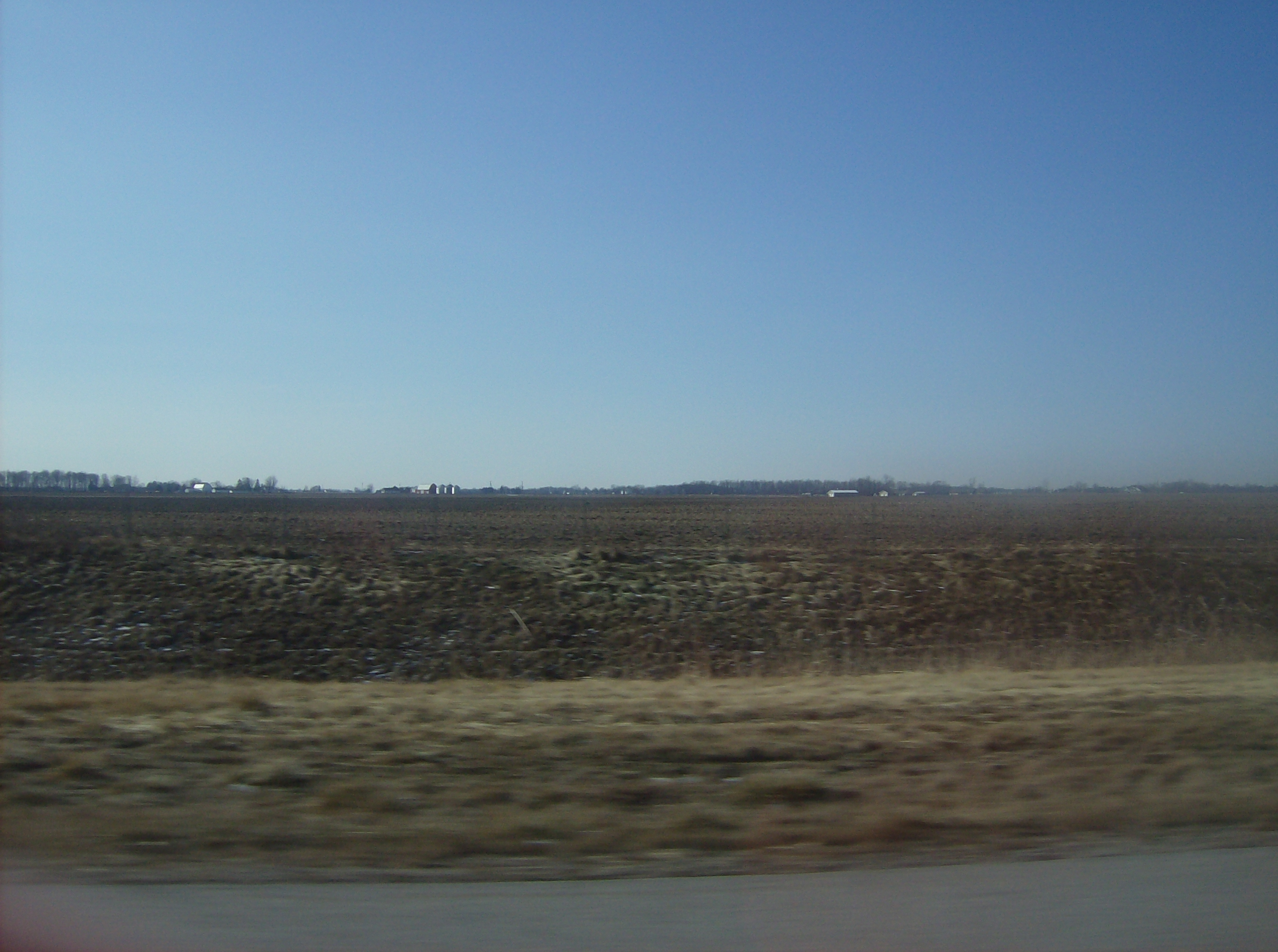 Farmland in central Ridge Township, Van Wert County, Ohio, United States. Picture taken from U.S. Route 30.